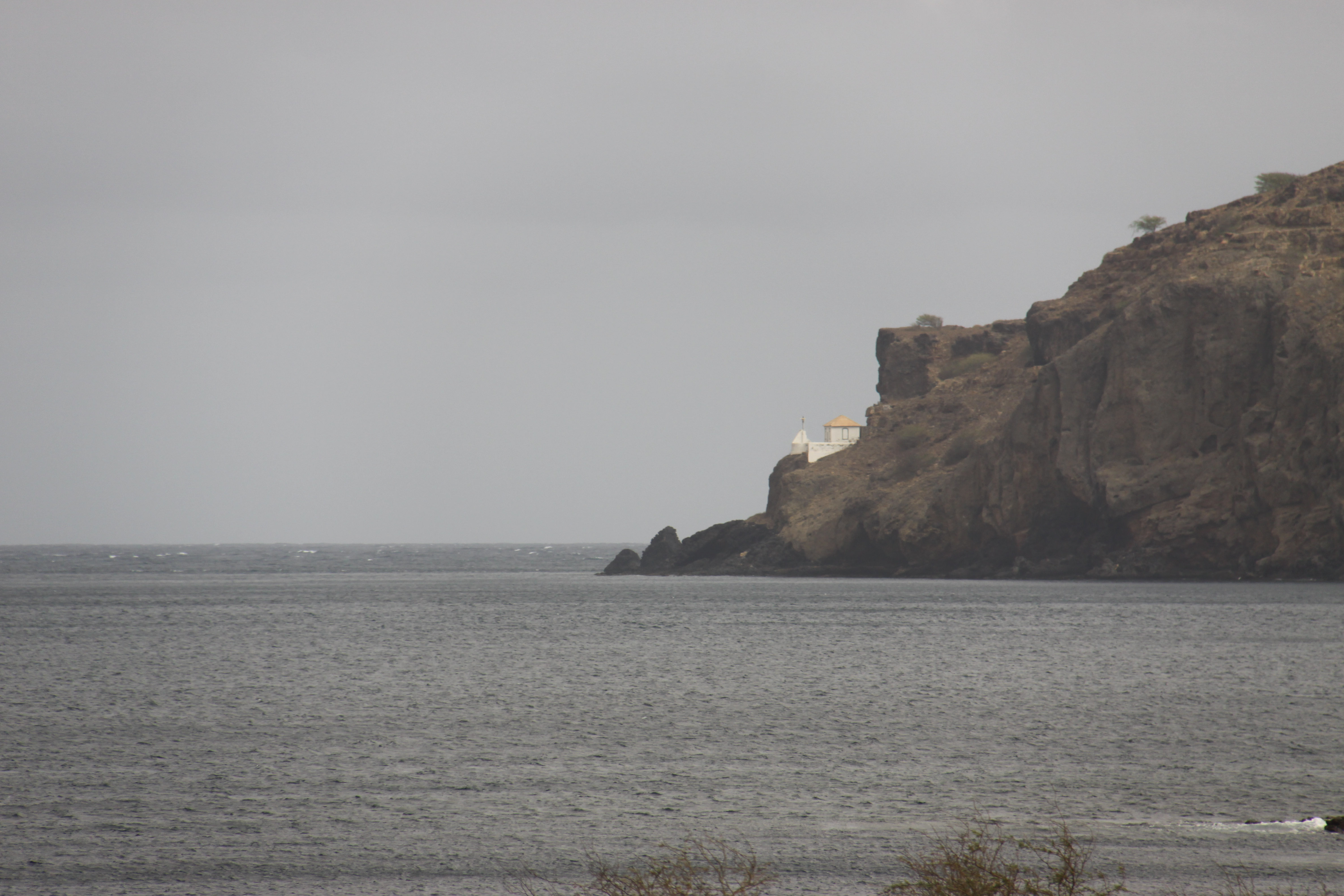 We were told this is a lighthouse, we never saw light come from it though and we think its a cross on the roof so maybe its a church (original description, labled "Cape Verde", "Tarrafal".